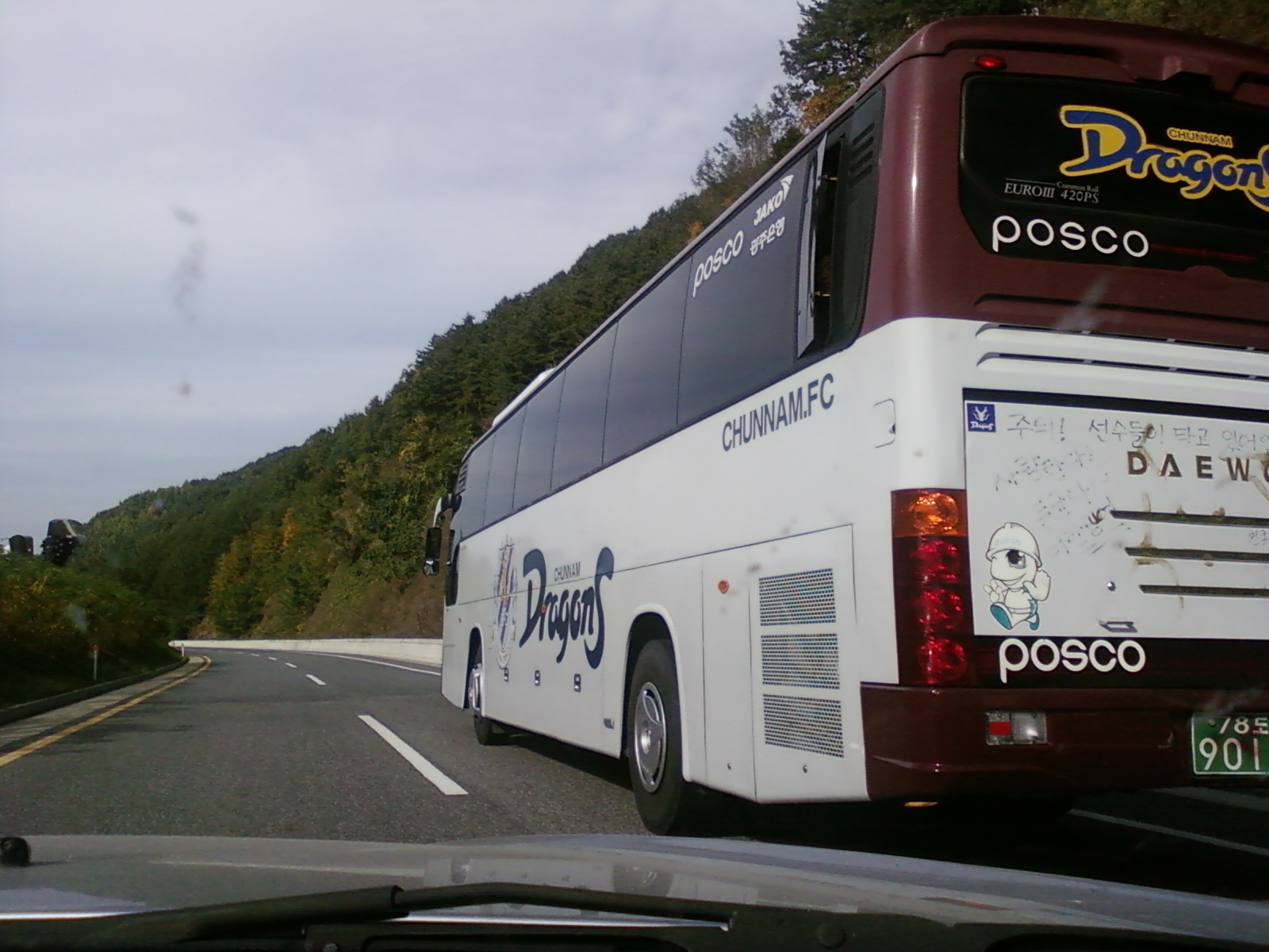 Chunnam Dragons Bus